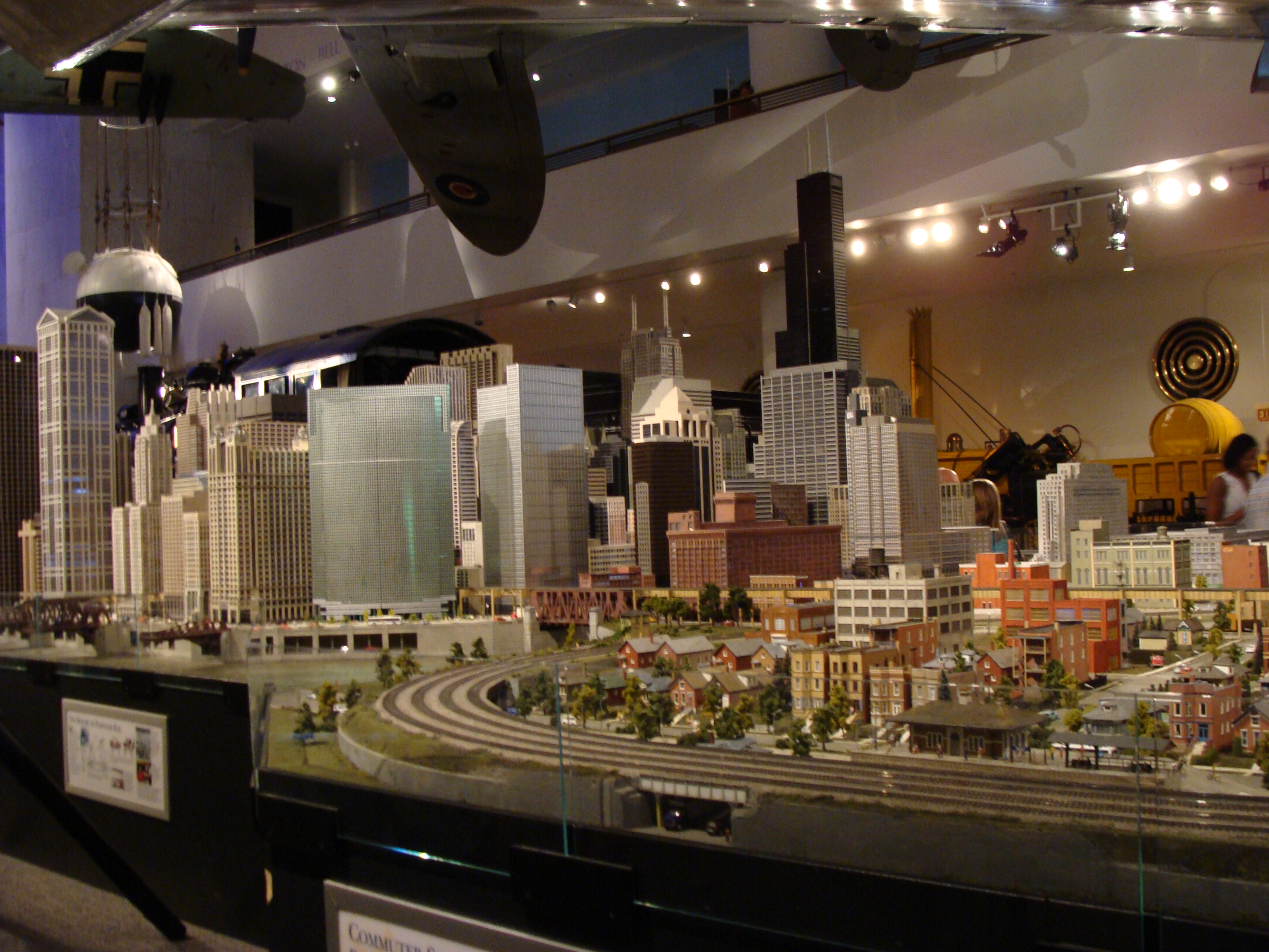 The Chicago portion of the The Great Train Story at the Museum of Science and Industry in Chicago.